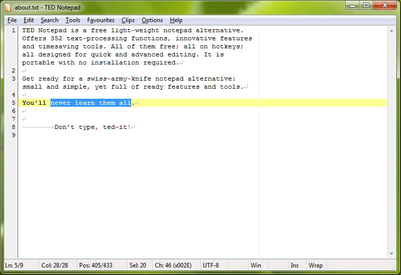 Free screenshot of TED Notepad. Author: Juraj Simlovic.